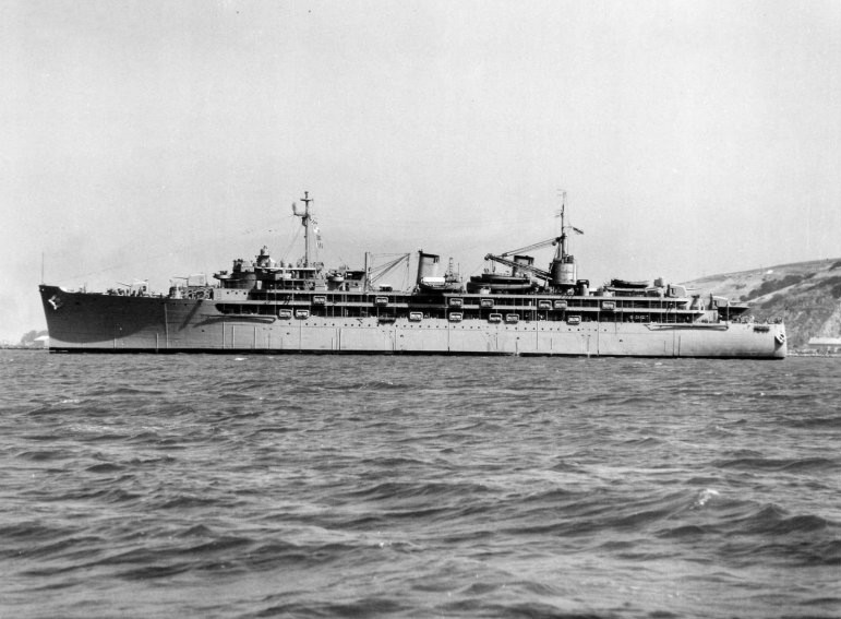 The U.S. Navy Fulton-class submarine tender USS Bushnell (AS-15) underway off the Mare Island Naval Shipyard, Vallejo, California (USA), on 11 August 1947.